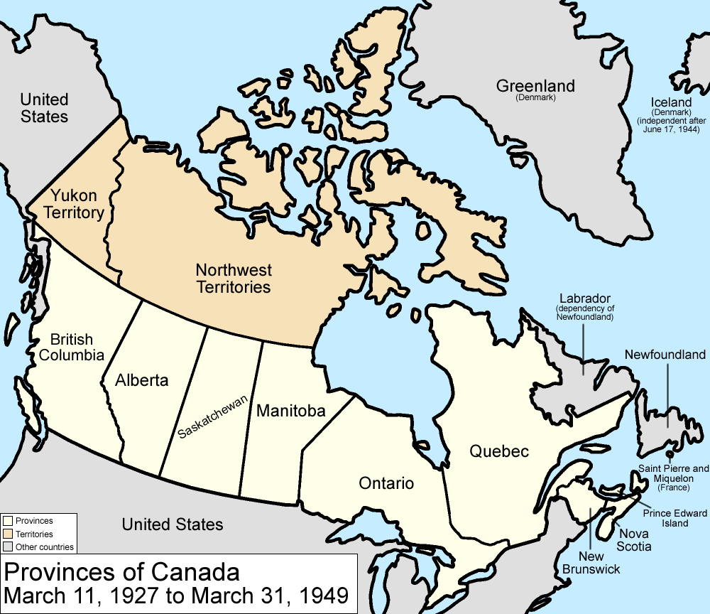 Map of the provinces and territories of Canada as they were between 1927 and 1949. On March 1 1927, a court transferred a disputed portion of Quebec to the Dominion of Newfoundland. On March 31 1949, Newfoundland joined Canada as a province. Made by User:Golbez.